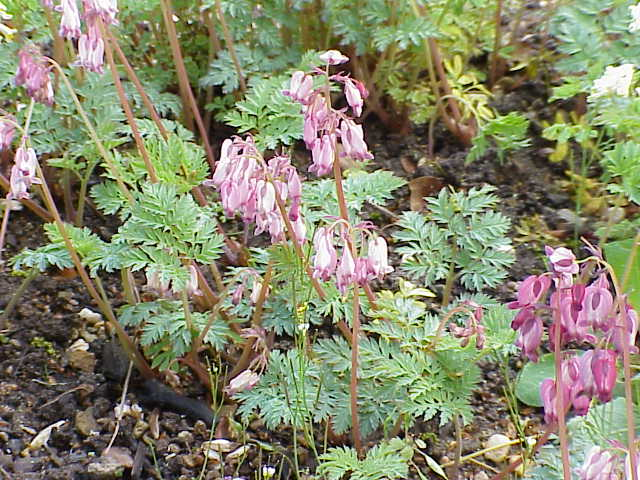 Species: Dicentra formosa Family: Fumariaceae Image No. 1